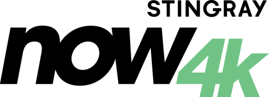 Stingray Now 4K logo